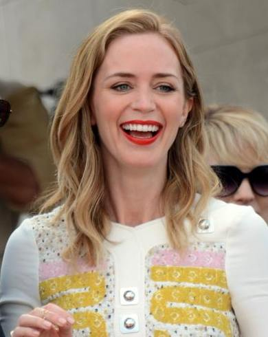 Josh Brolin and Emily Blunt at the Cannes film festival